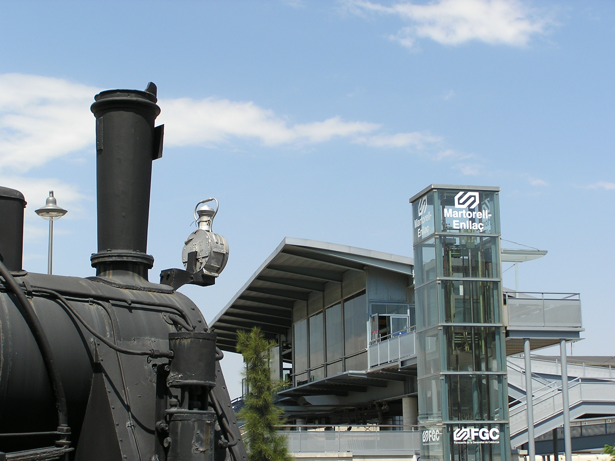 Martorell-Enllaç rail station (Spain)